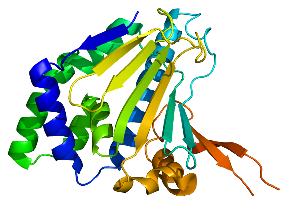 Structure of the HSP90B1 protein. Based on PyMOL rendering of PDB 1qy5.